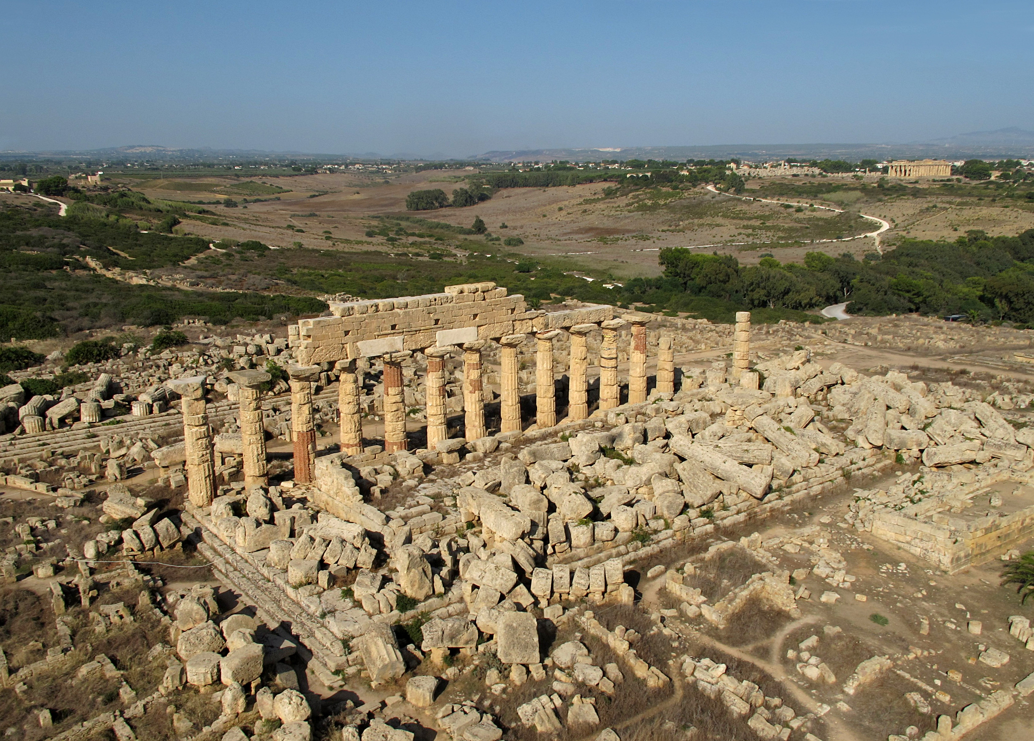 Selinunte (Sicily): Temple C on the acropolis with its colums of the northern side partially reerected in 1925. Behind it is the Temple D and on the right side the little Temple B. In the upper right, below the horizon, the eastern hill with Temple E. View to Northeast. Picture taken by kite aerial photography (KAP).